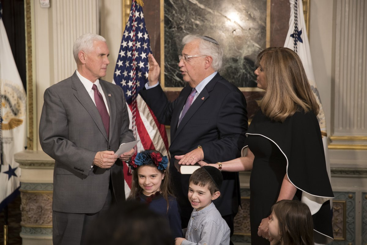 David M. Friedman is sworn in as United States Ambassador to Israel by Vice President Mike Pence in the Indian Treaty Room.